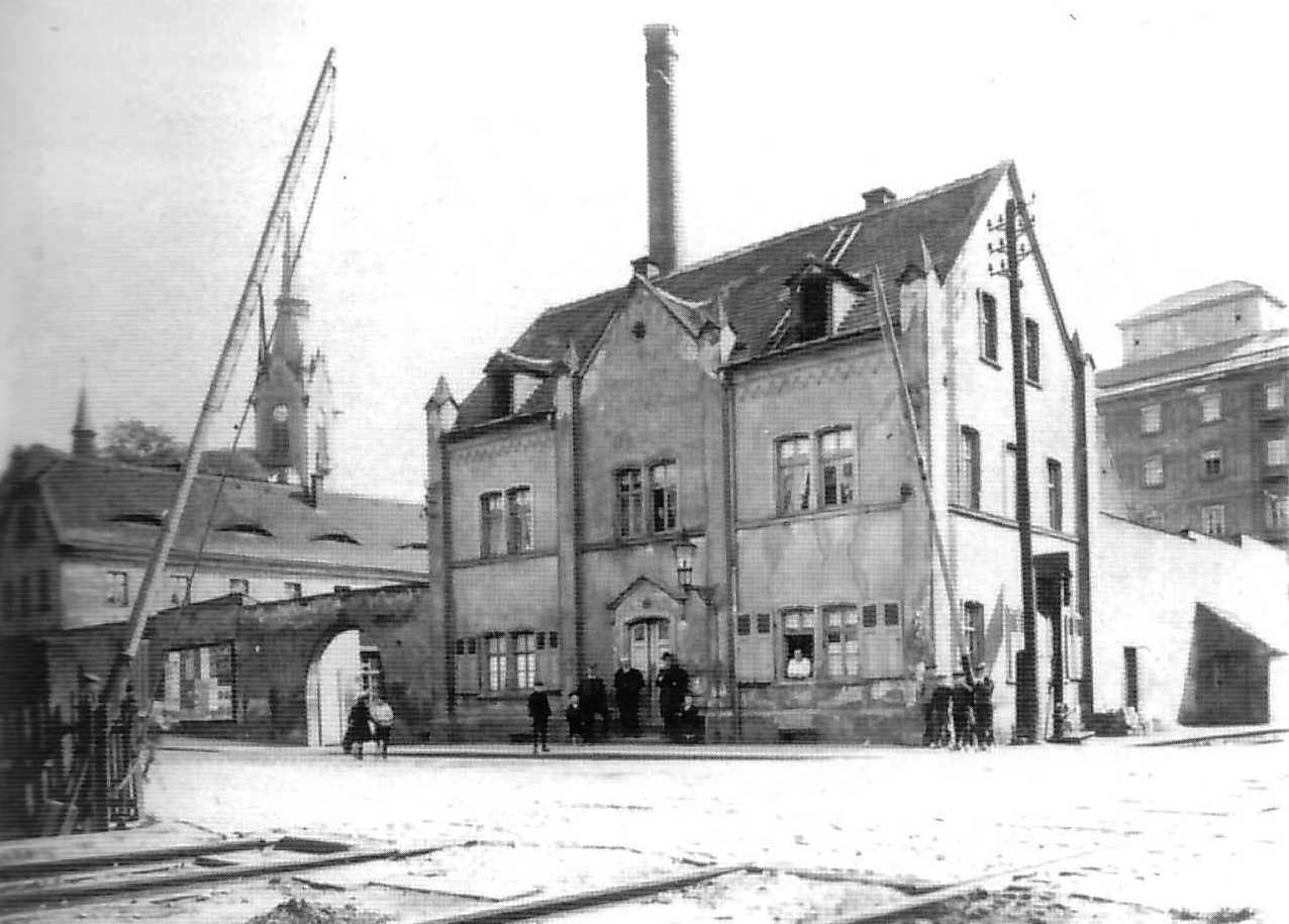 The Bienert Bread Factory circa 1910